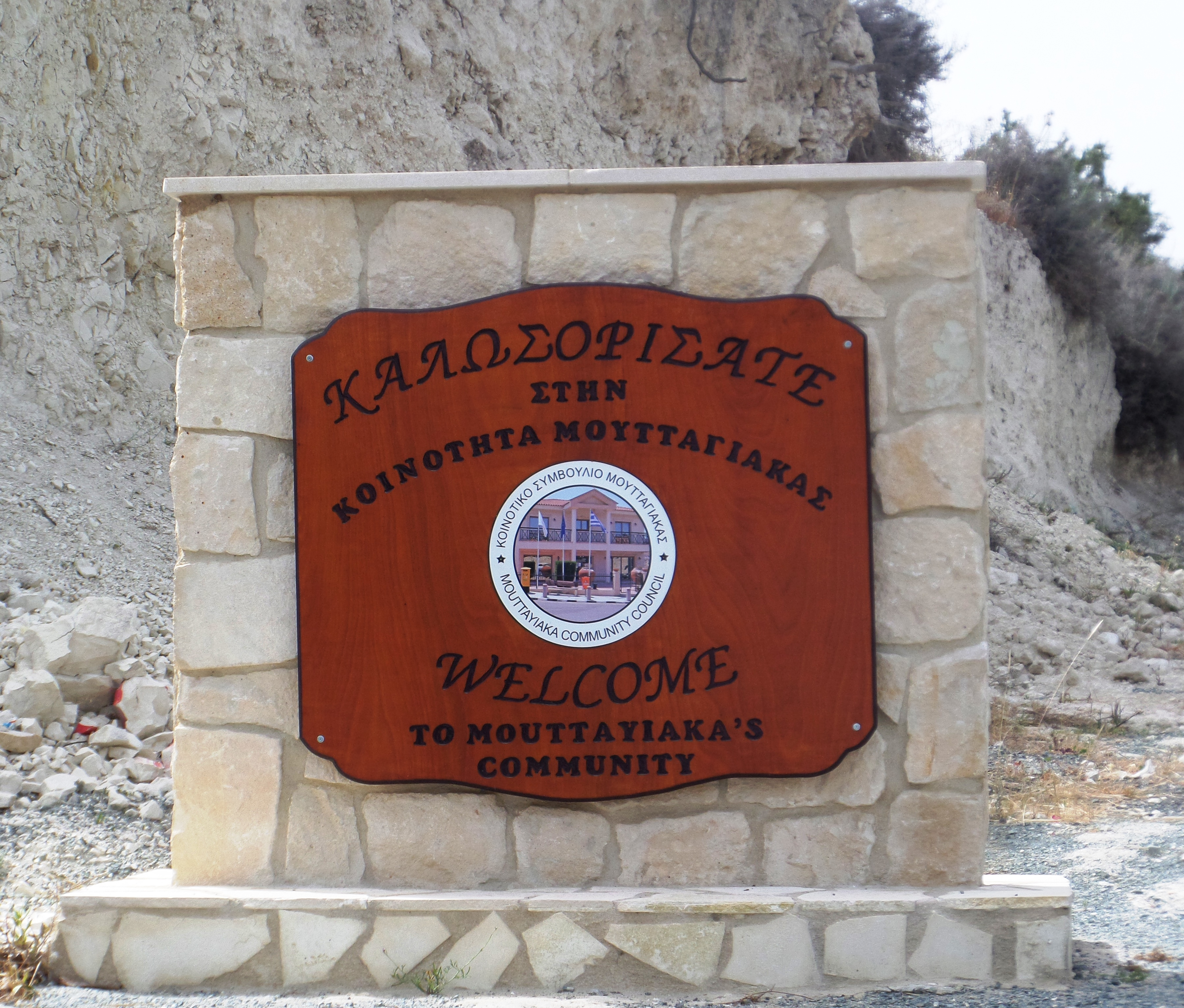 Mouttagiaka Welcome Road Sign.